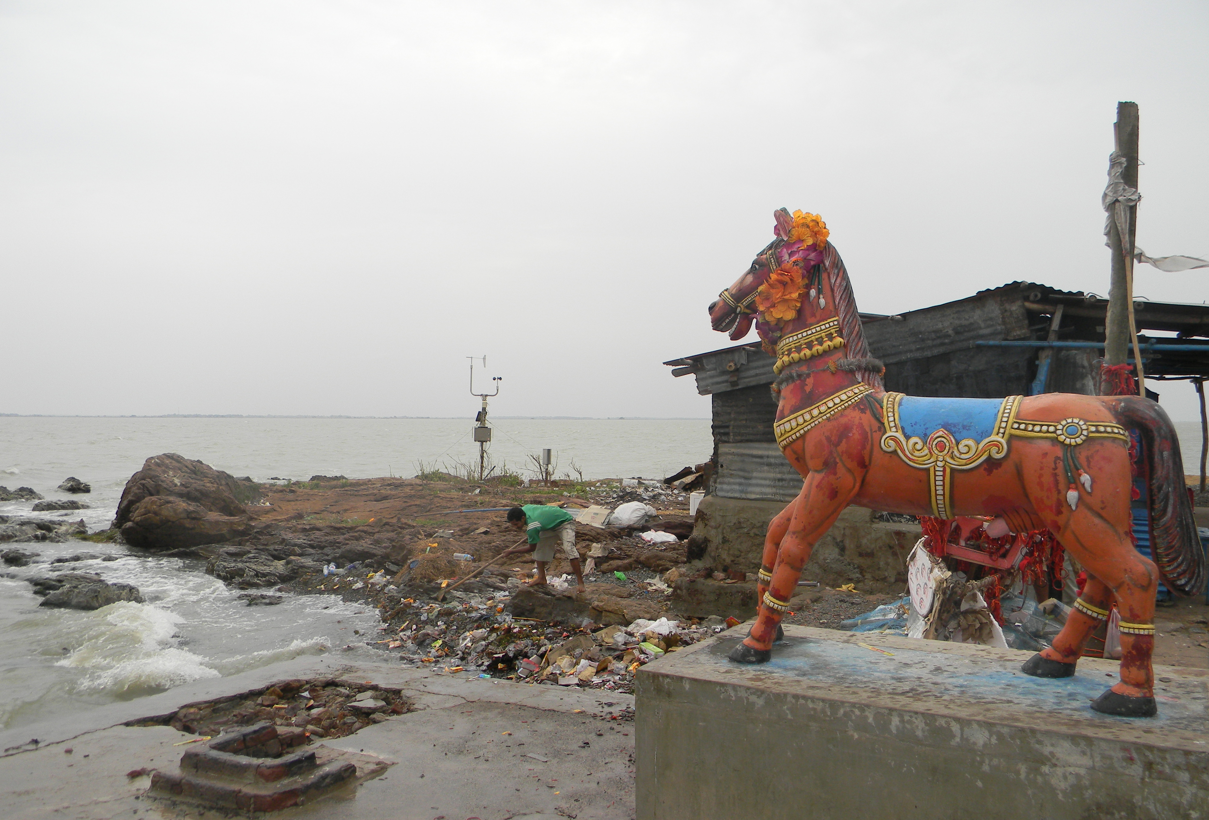 Kalijai Temple, Chilika Lake, Khurda, Odisha This media file is uploaded with Odia loves Wikipedia